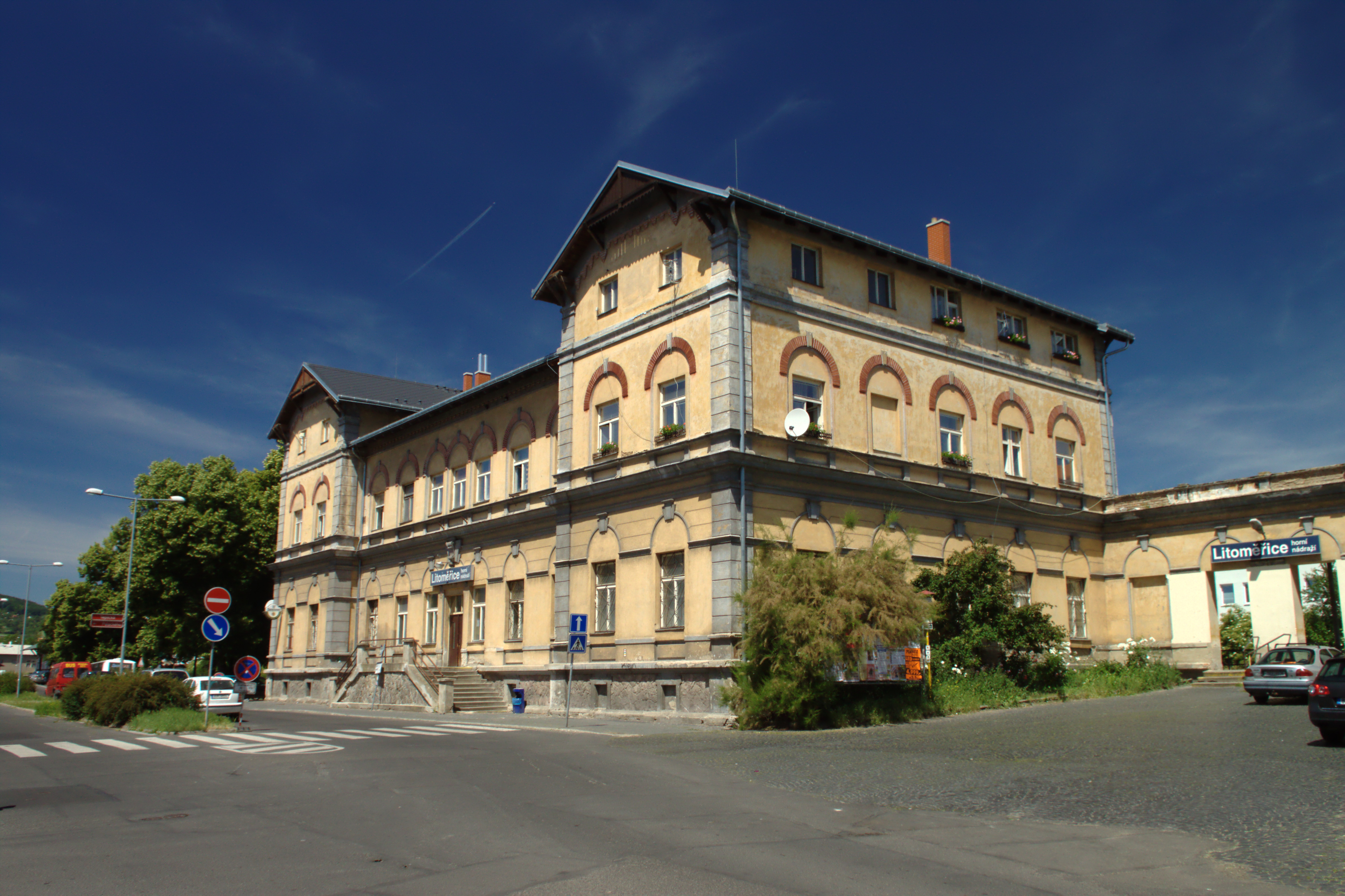 Horní nádraží train station in Litoměřice, CZ